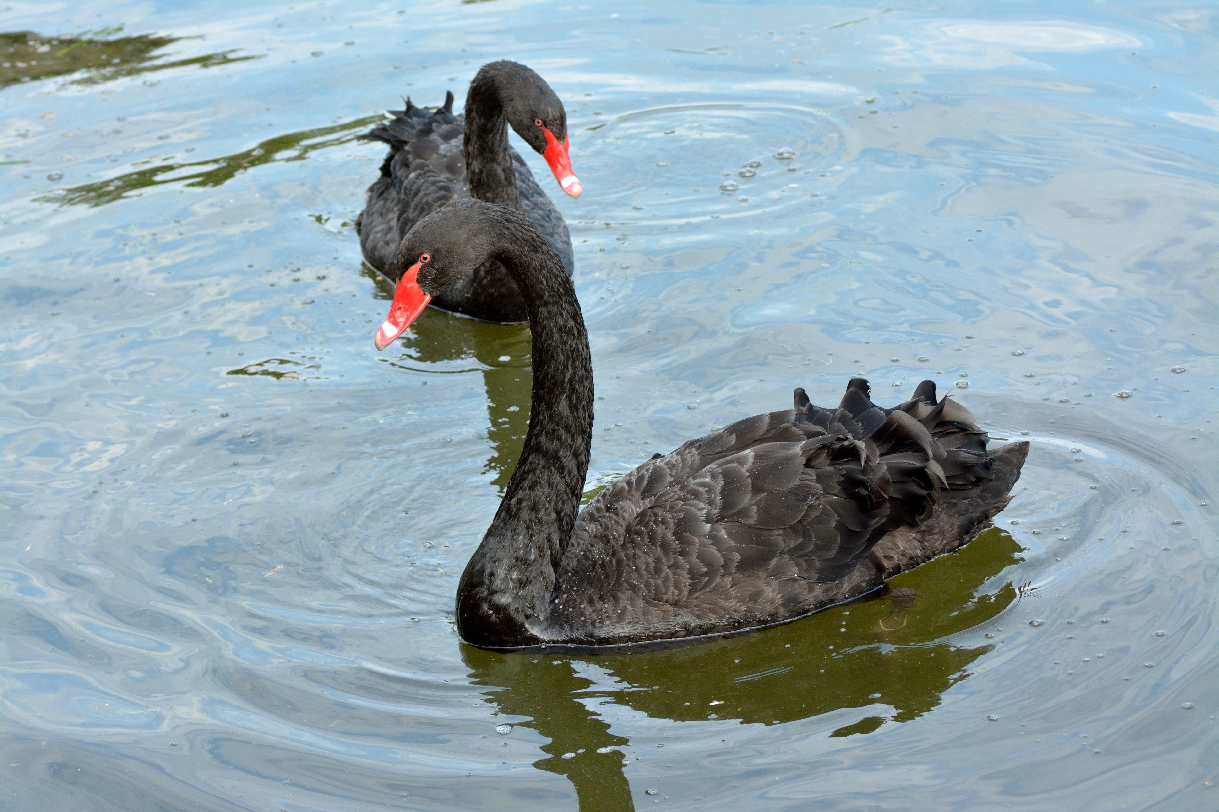 Black Swans (Cygnus atratus) in Kadrioru park